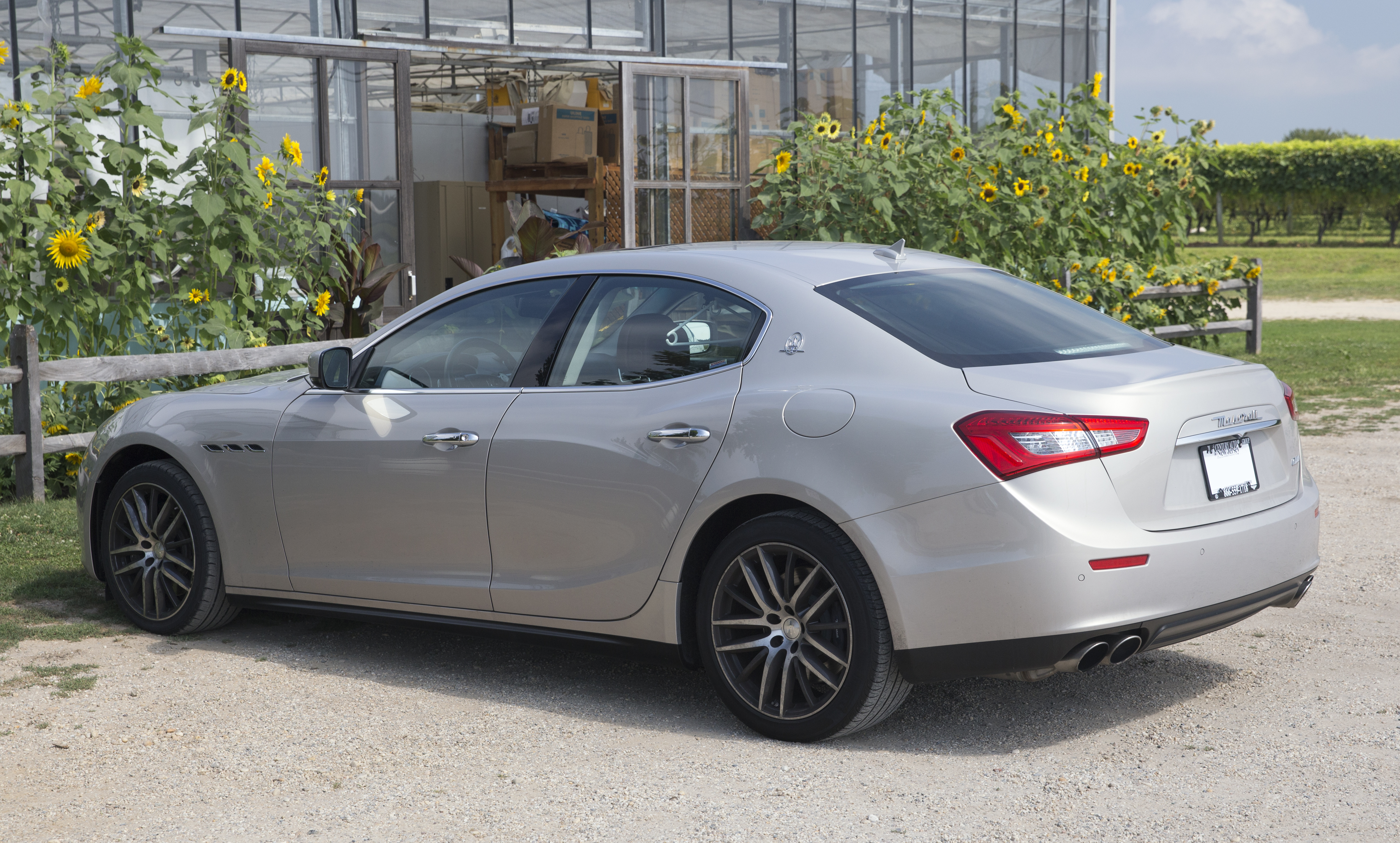 2015 Maserati Ghibli S Q4 and some nice sunflowers; vineyards behind. In the delightfully named hamlet of Sagaponack, NY.